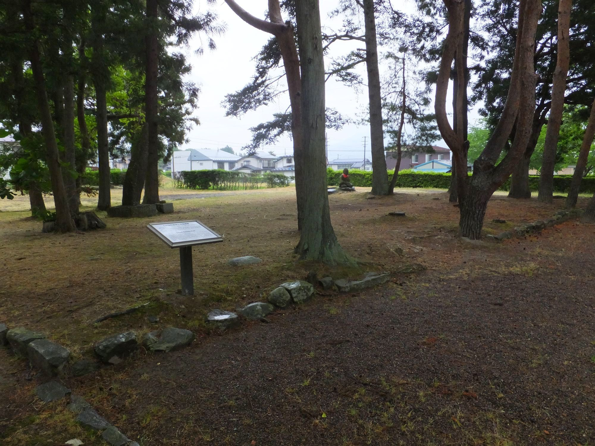 The ruins of Kanjizaiō-in temple in Hiraizumi, Iwate Prefecture